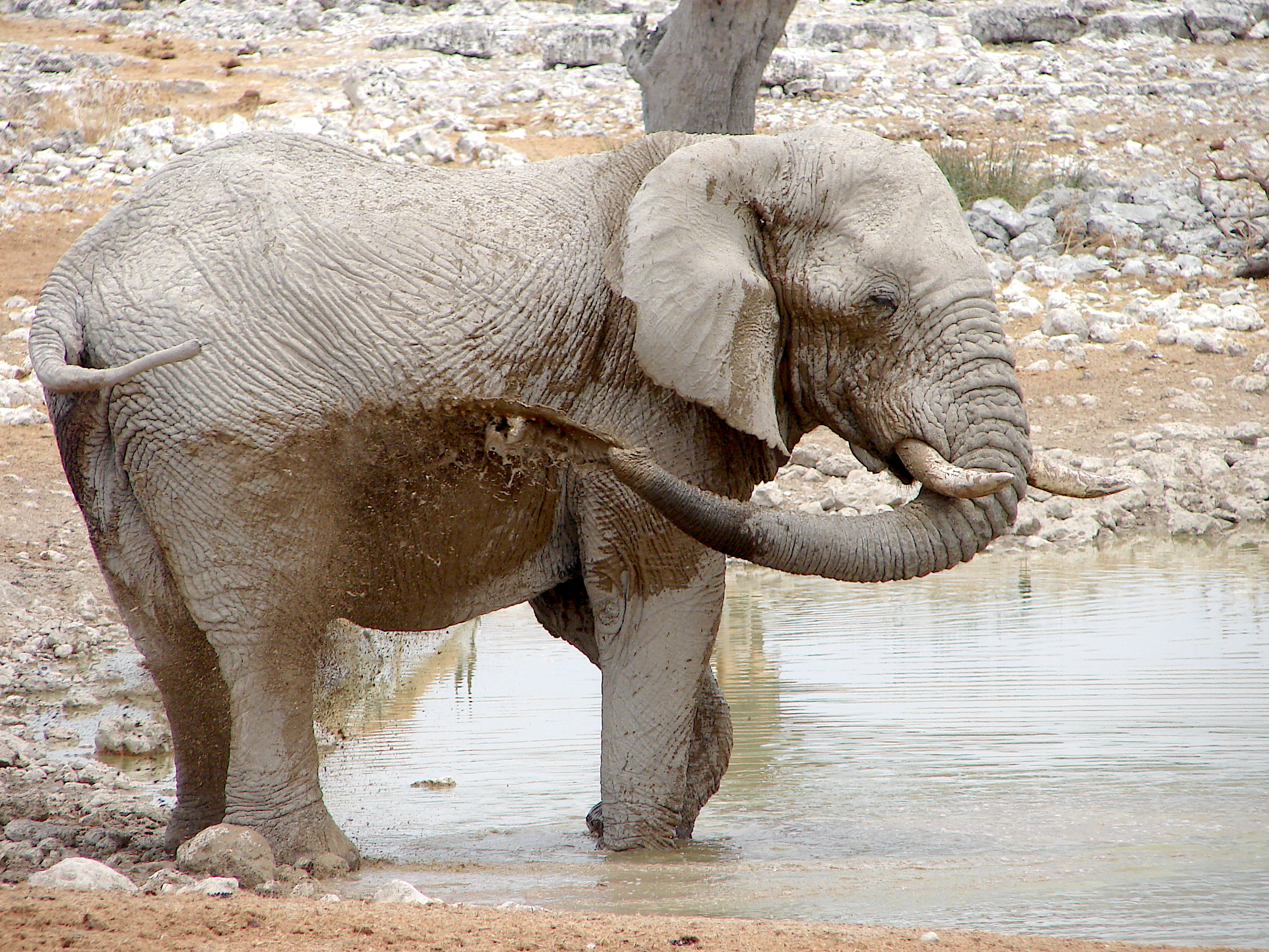 Elephant at Okaukuejo waterhole, Etosha (2014)